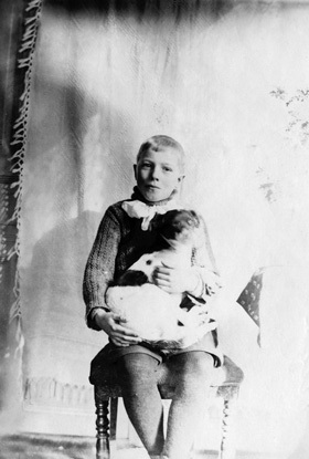 Ville with the dog